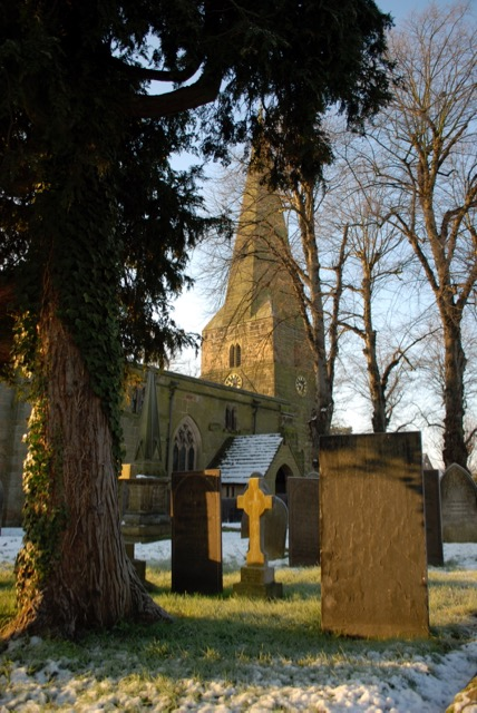 St Michaels Church Breaston